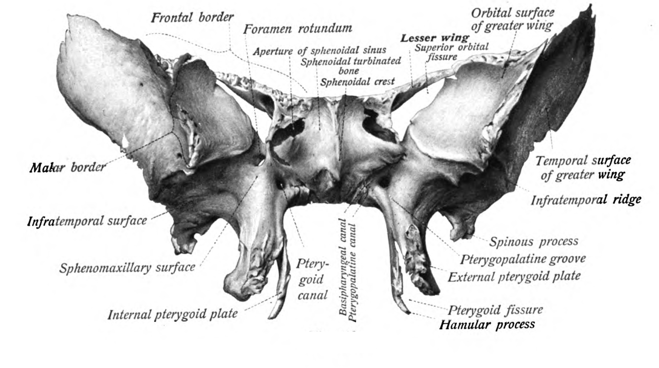 An illustration from the 1909 American edition of Sobotta's anatomy with English terminology